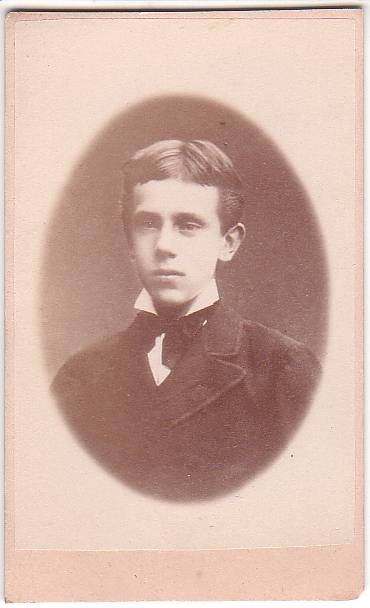 Crown Prince Rudolf of Austria, at young age (old photo from around 1870).